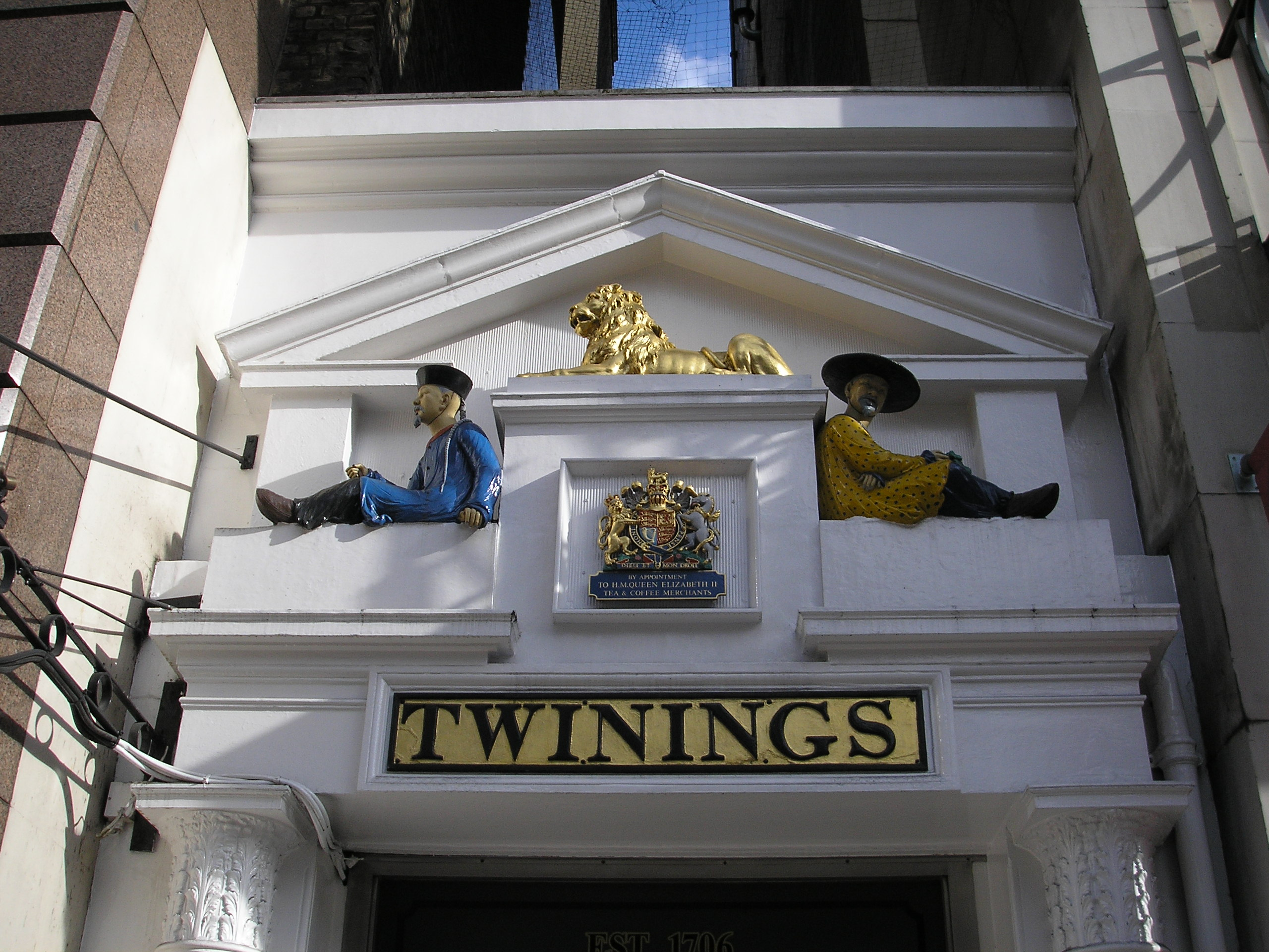 Twinings shop at 216 Strand, London. Thomas Twining (1675-1741) founded the House of Twining by purchasing the original "Tom's Coffee House" at the back of the site at the Strand in 1706, where he introduced tea. In 1717, he opened the "Golden Lyon" there as a shop to sell tea and coffee. In 1787 his grandson Richard Twining (1719-1824) built the handsome doorway incorporating his grandfather's "Golden Lyon" symbols with two Chinese figures. Twinings is believed to be the oldest company to have traded continuously at the same site with the same family since its foundation.